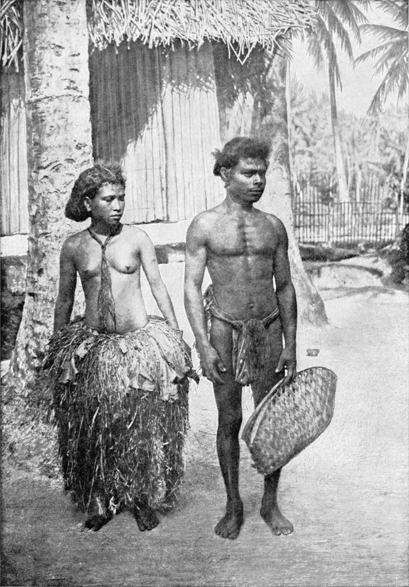 Man and woman (slaves) of the Pimlingai tribe, Uap (Carolines)Showing the dark aboriginal type.